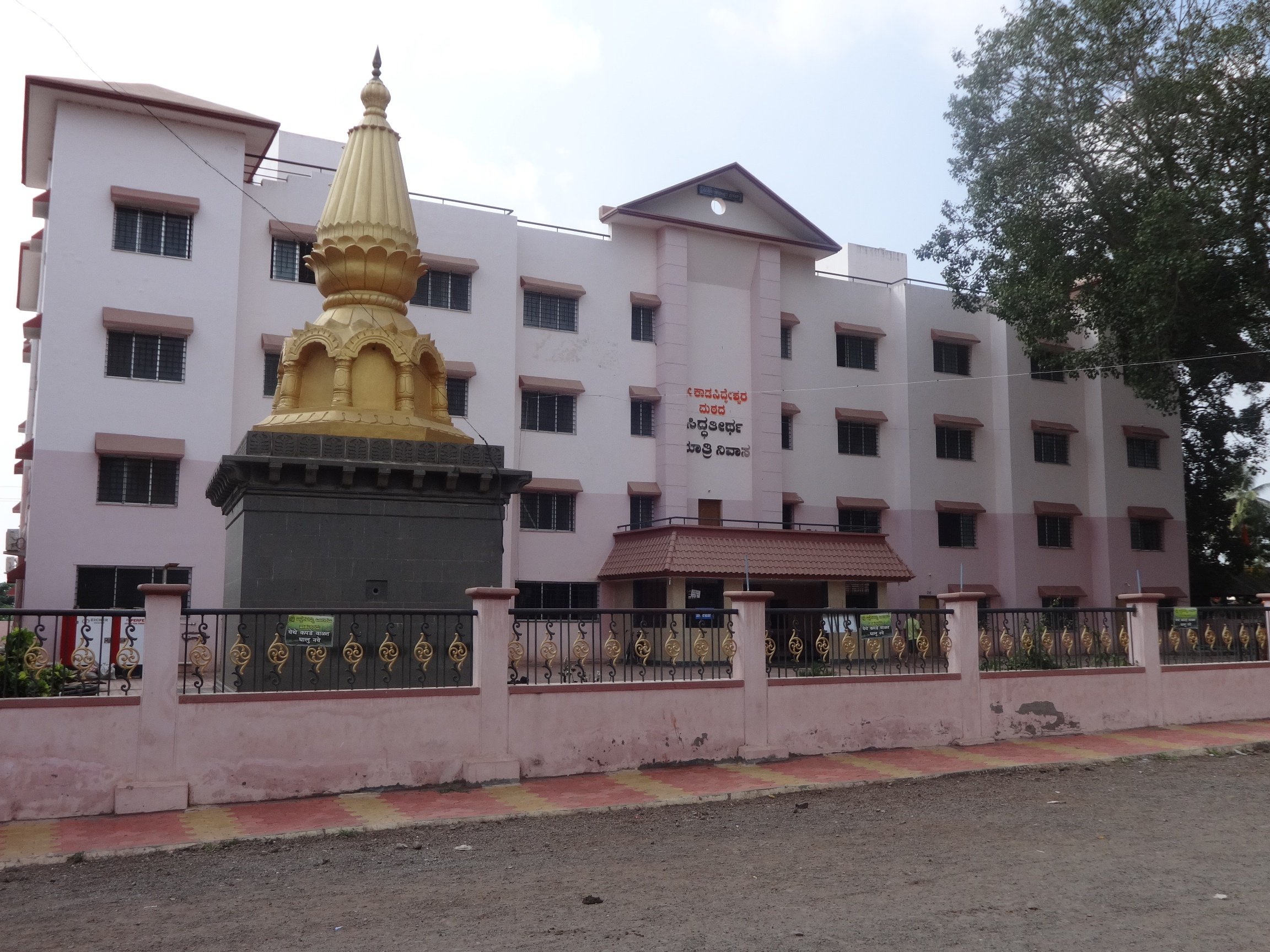 stay.